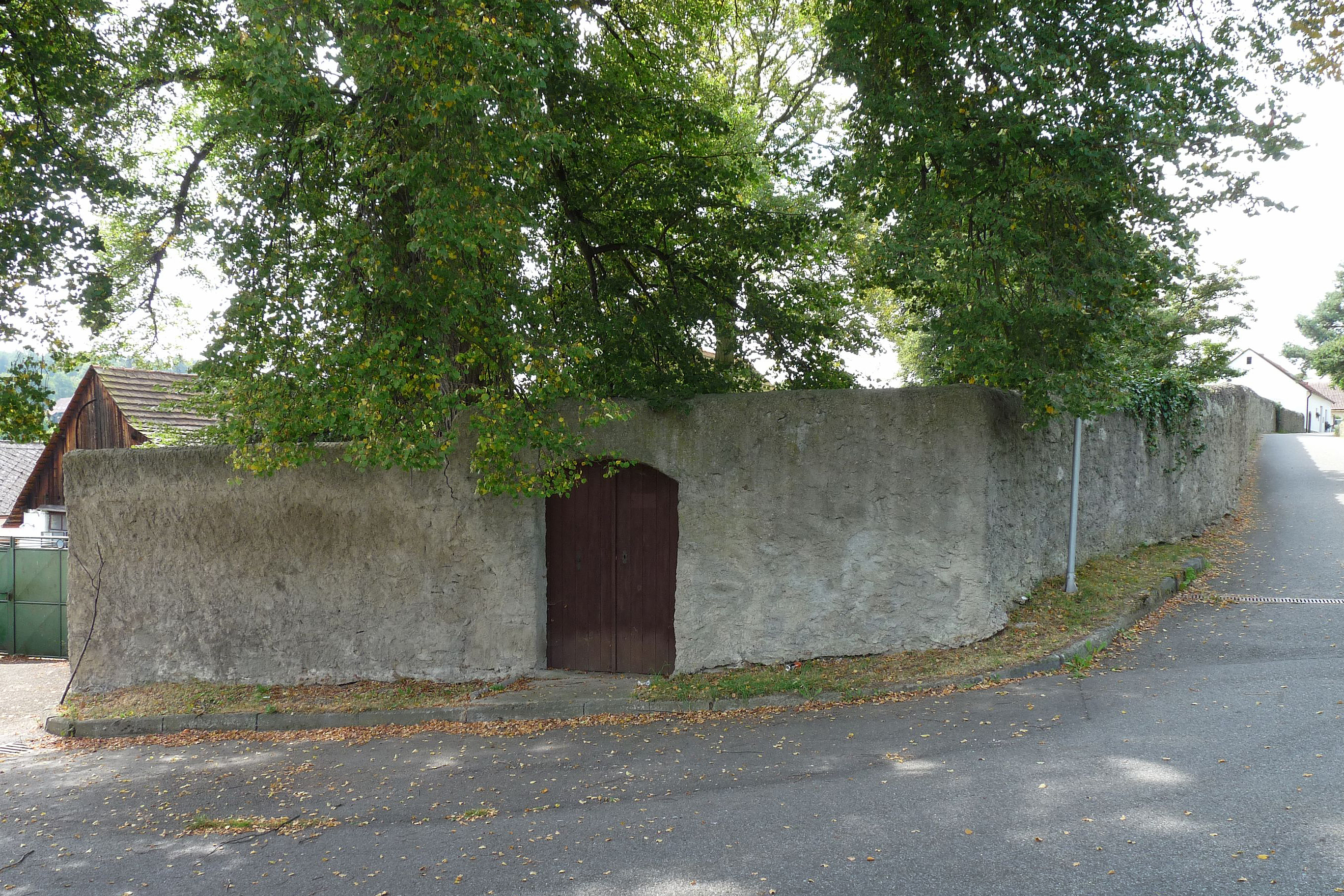 Entrance to the Jewish cemetery in the town of Volyně, Strakonice District, Czech Republic